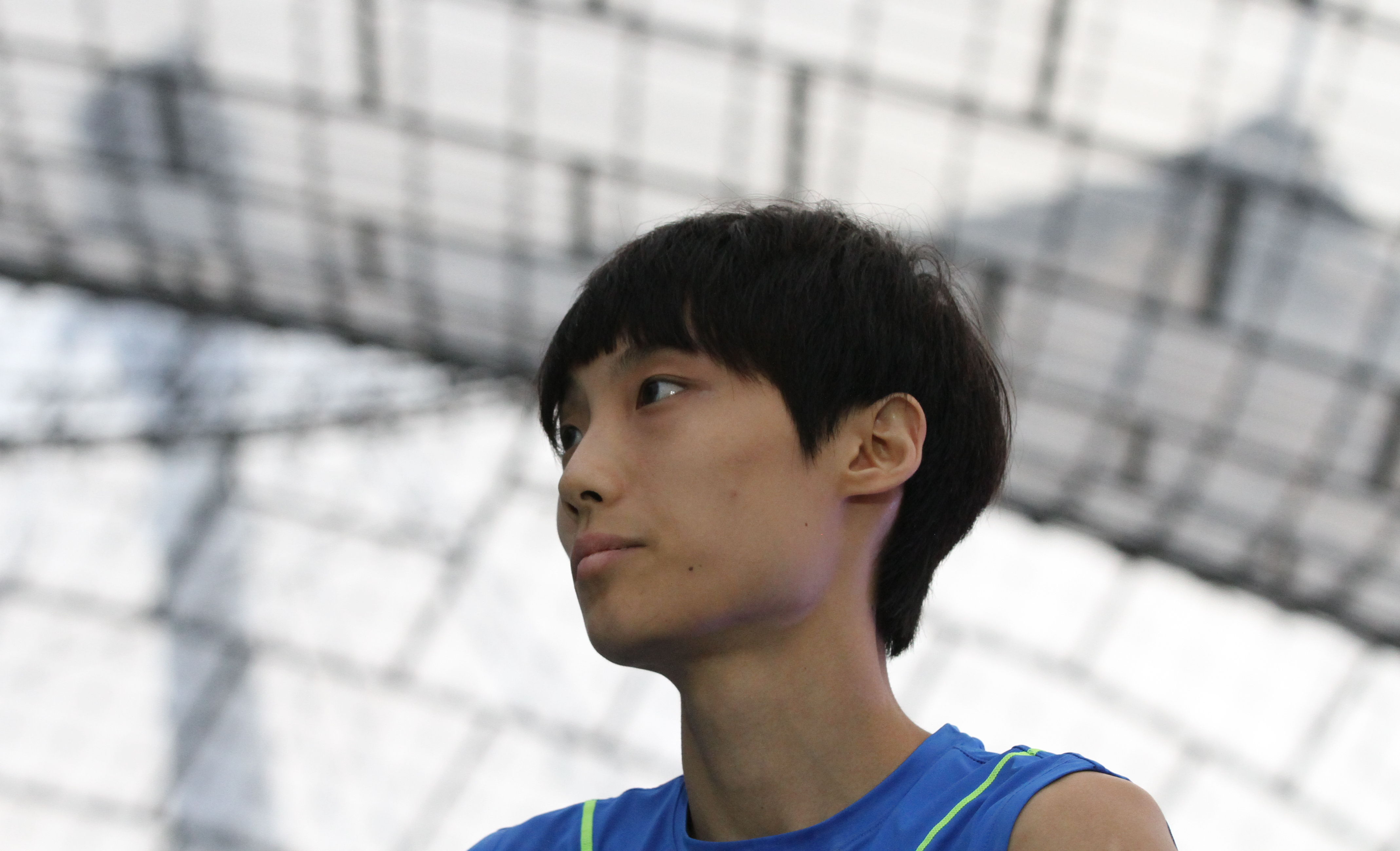 IFSC Boulder Worldcup, Munich 2015. Jongwon Chon (KOR)